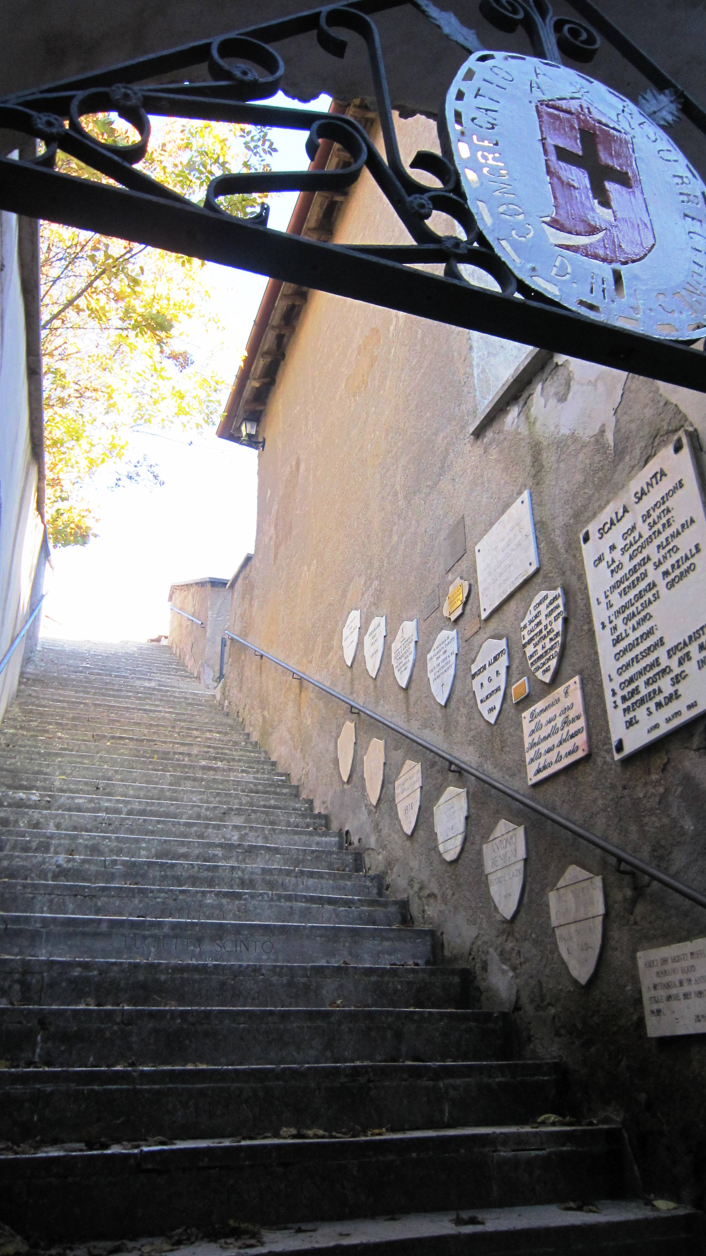 MENTORELLA scala santa